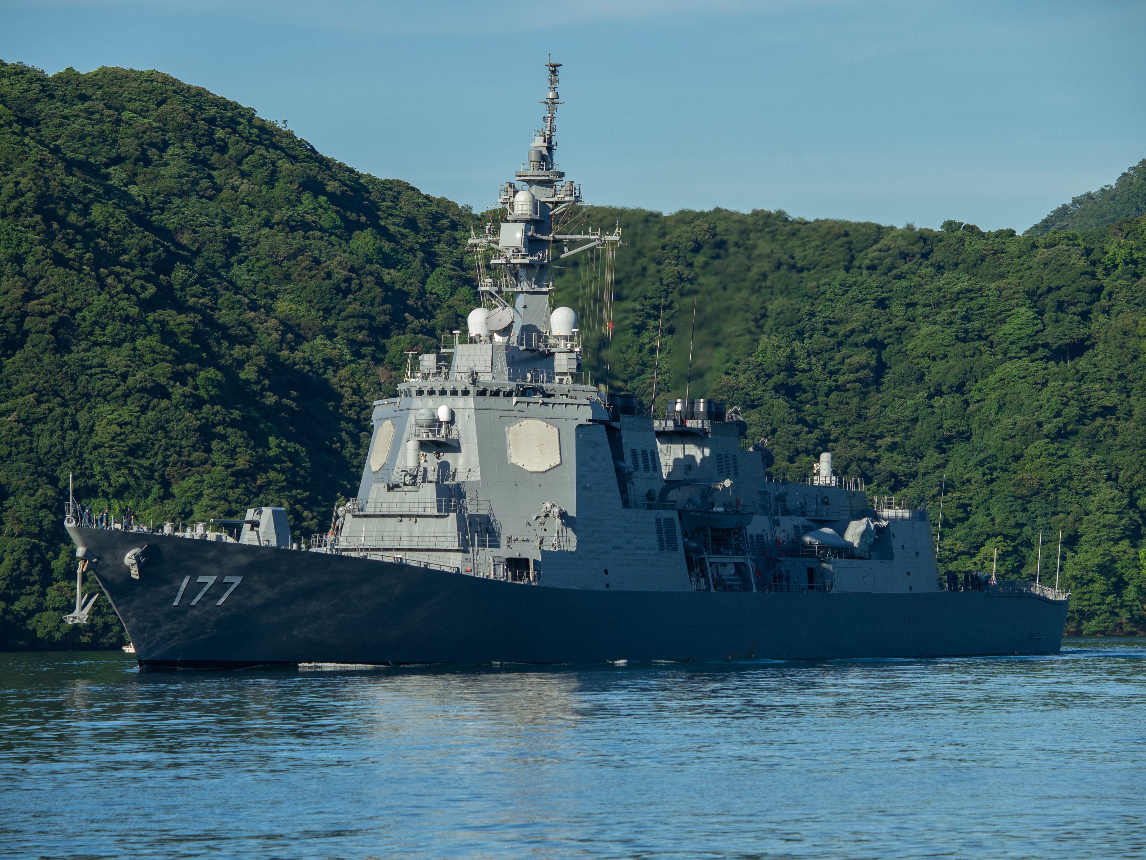 AIGIS Destroyer JS "Atago" on Maizuru Bay